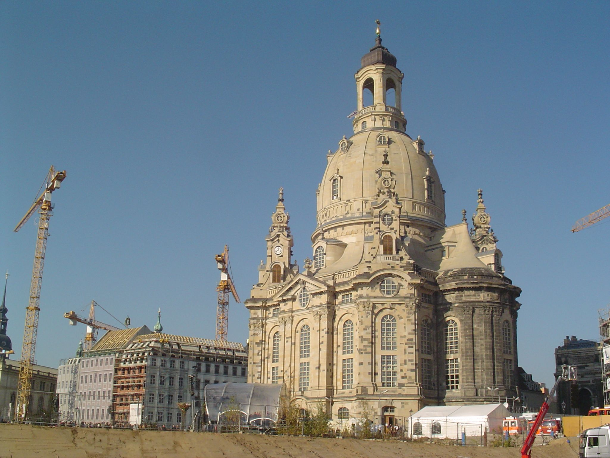 The Frauenkirche in Dresden on October 30th 2005, the day of its reconsecration